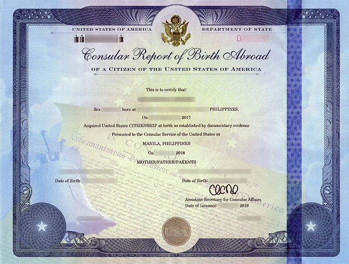 A Consular Report of Birth Abroad, issued by the State Department to a foreign-born person who acquires U.S. citizenship or non-citizen nationality at birth.